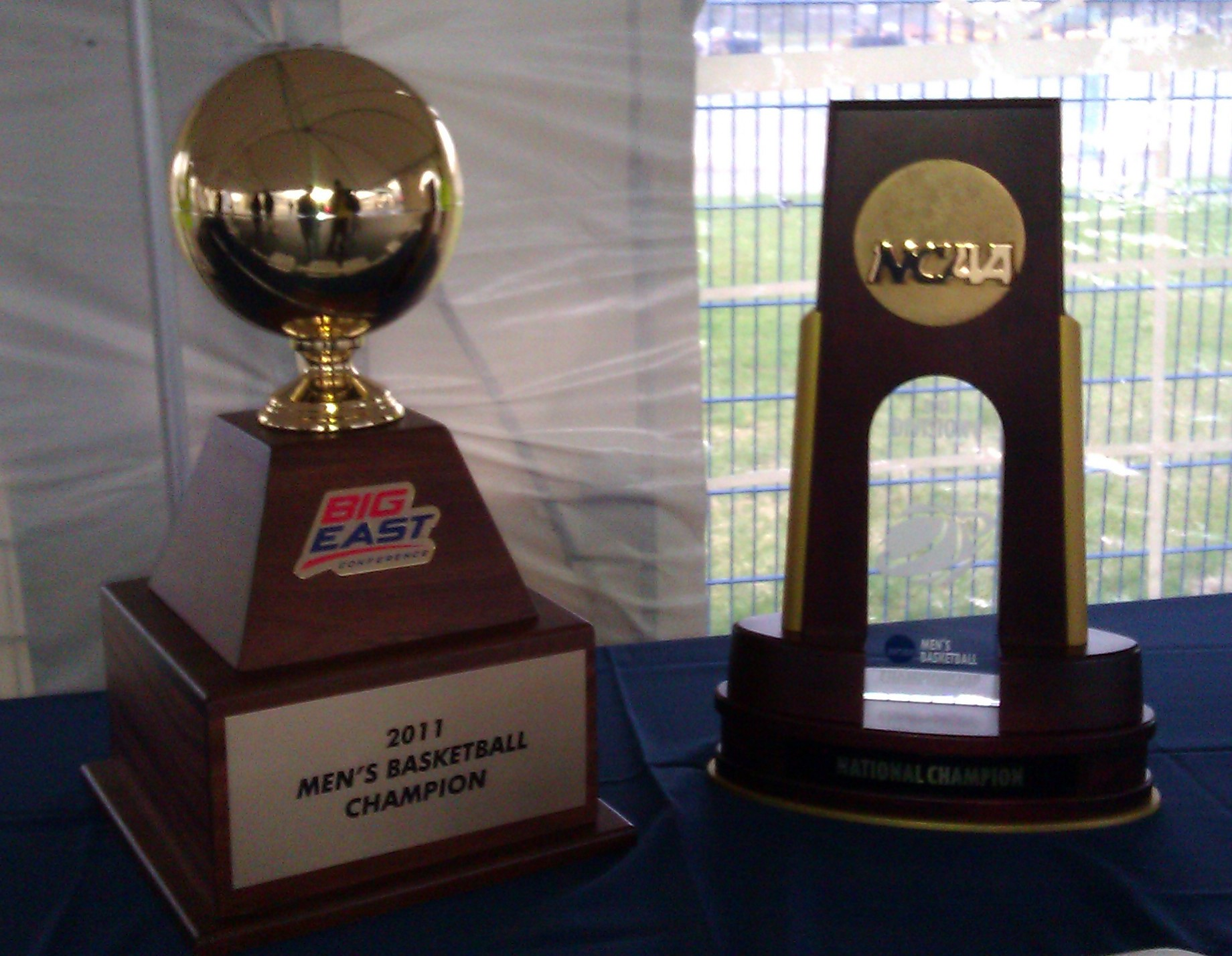 2011 Big East Championship and 2011 NCAA Division I Men's Basketball Championship trophies.